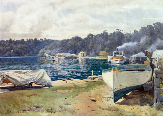 From the Collection of the Art Gallery of New South Wales by John Mather (Scotland; Australia, b.1848, d.1916) "Mosman's Bay" Watercolour pencil, watercolour, white gouache 39.0 x 54.0cm sight Purchased 1890 Accession number: 4402 A ferry between Mosman's Bay on Sydney's North Shore and the city provided access for visitors to the popular artists' camp at Edwards Beach.